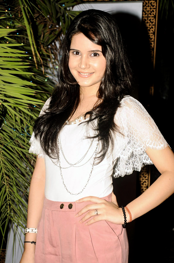 Shivshakti Sachdev grace Raakesh Paswan's party for his show Afsar Bitiya in April 2016.